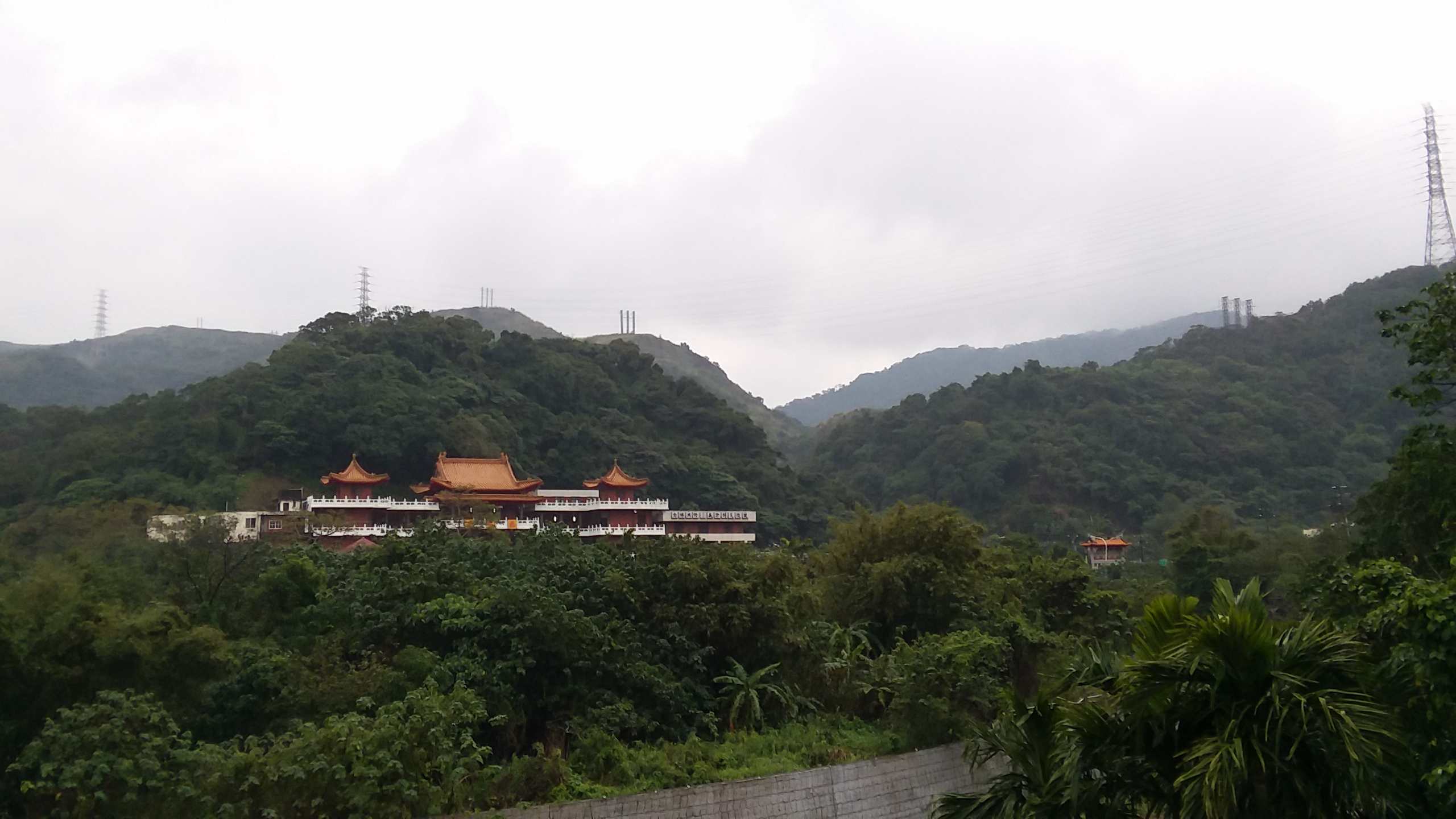 Distant view of Shulin Fuhui Temple alongside the mountains